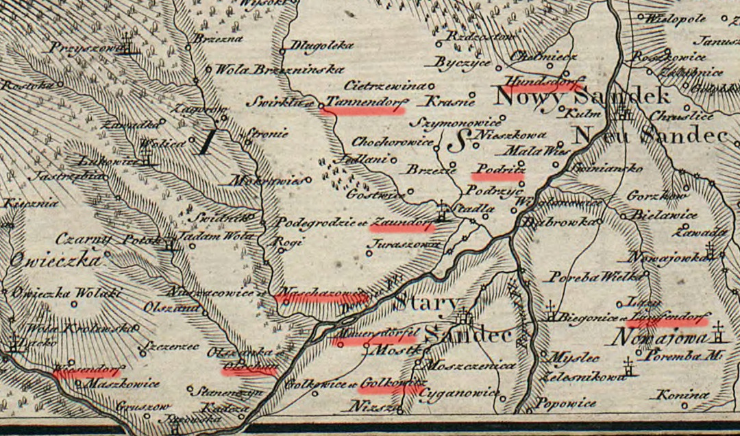 A map from 1797, josephinish colonies around Neu Sandez